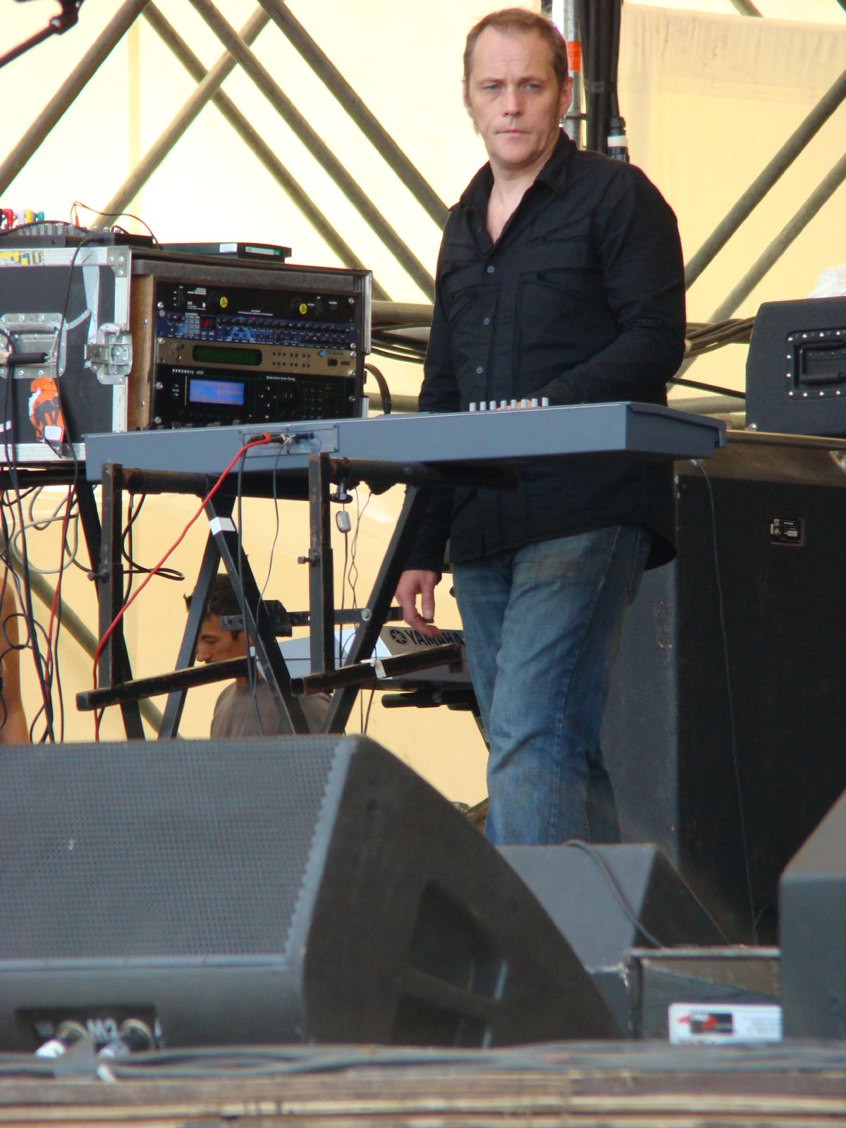 Les Smith of Anathema